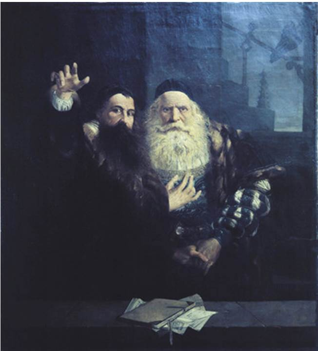 Jan Amos Komenský Says Farewell to Karel the Elder of Zerotín